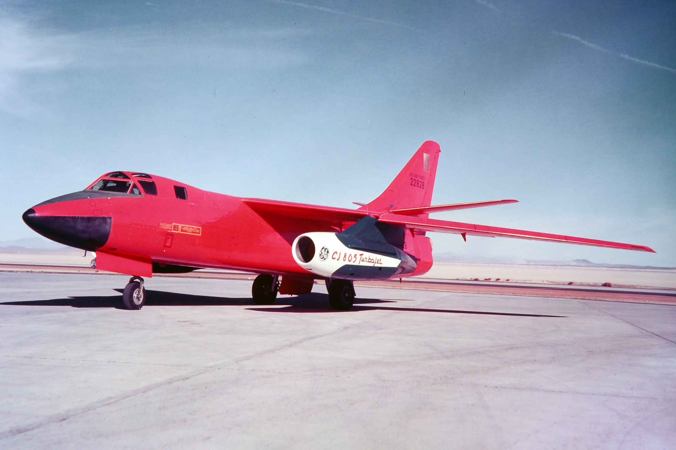 RB-66A test airplane on ramp at Edwards AFB. Airplane was powered by two GE CJ805 turbojet engines.